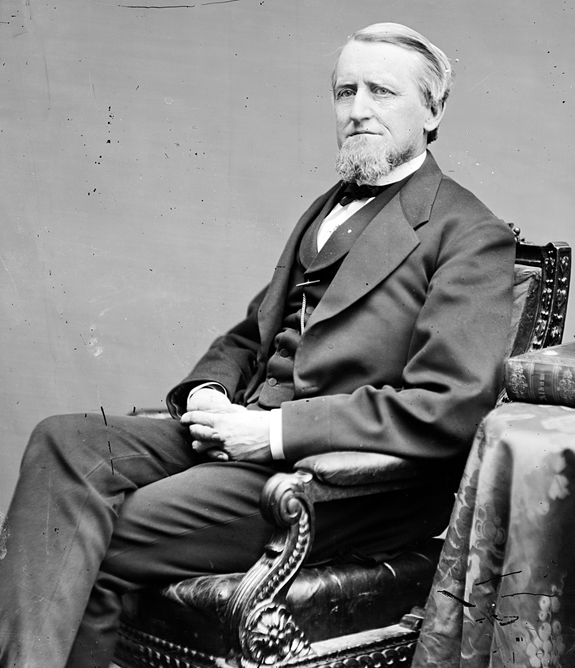 Burton C. Cook, US Representative from Illinois